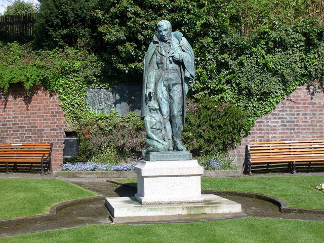 The Robert Owen memorial, Newtown The Robert Owen memorial in Newtown, the well known philanthropist